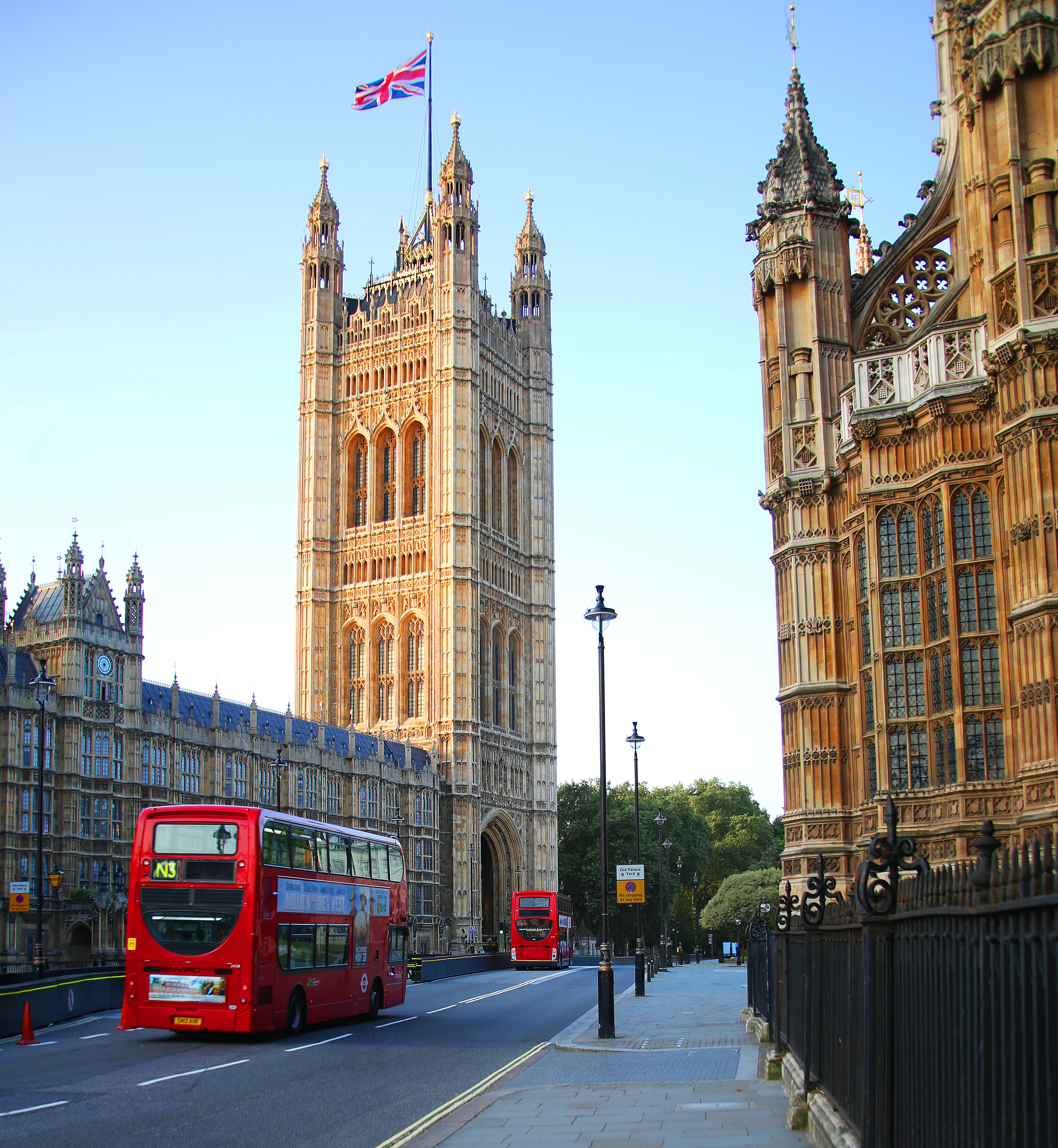 Parliament Building